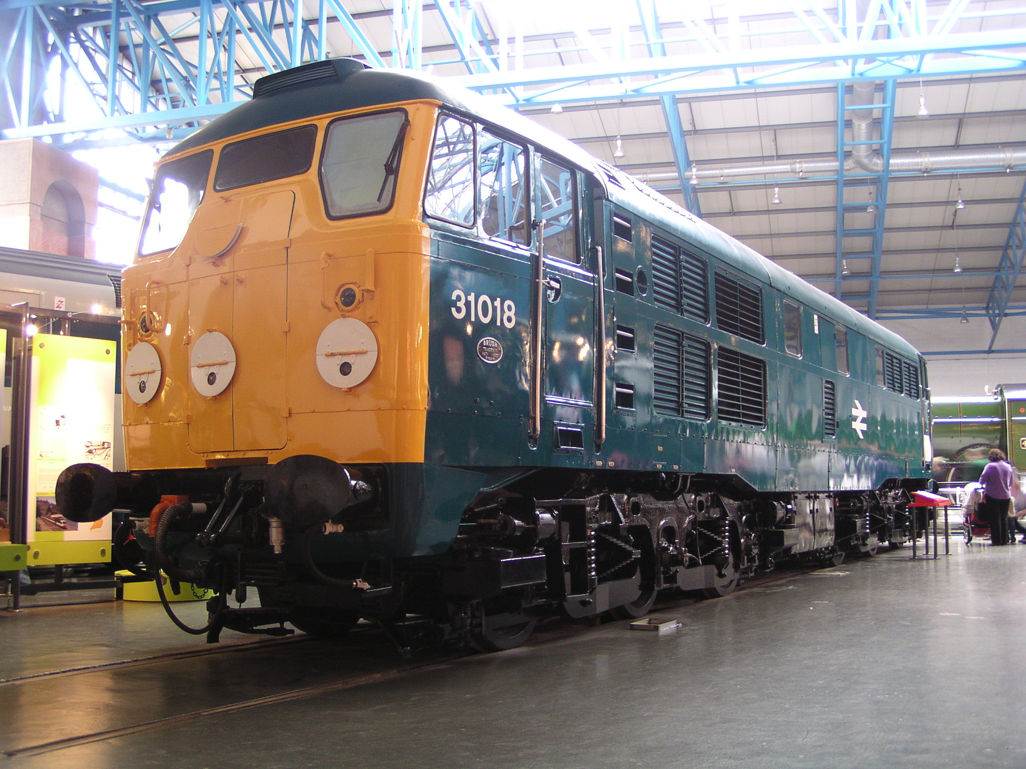 BR Class 31, no. 31018, at the National Railway Museum in York, on 3rd June 2004.